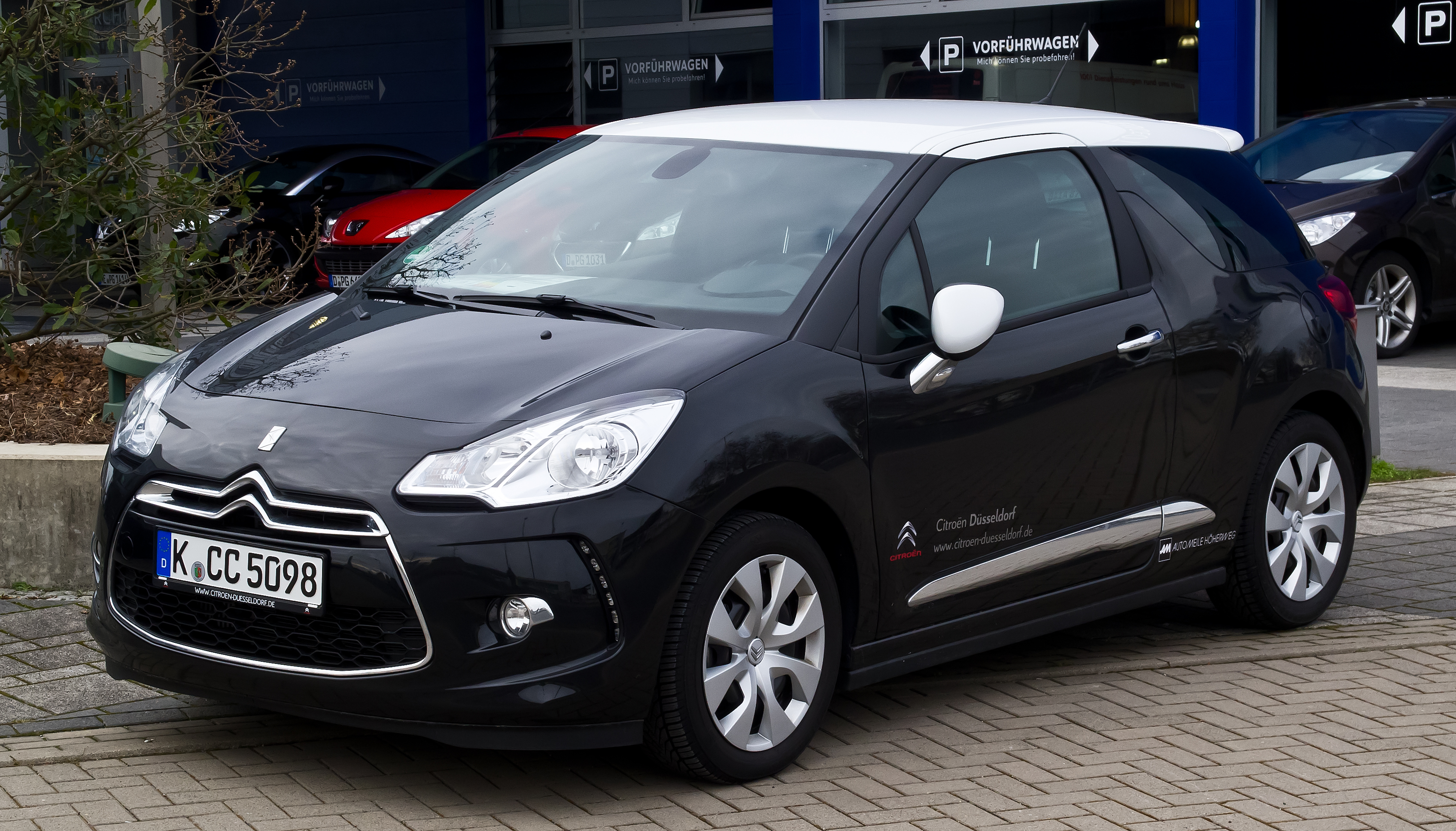 Citroën DS3 THP 155 SportChic